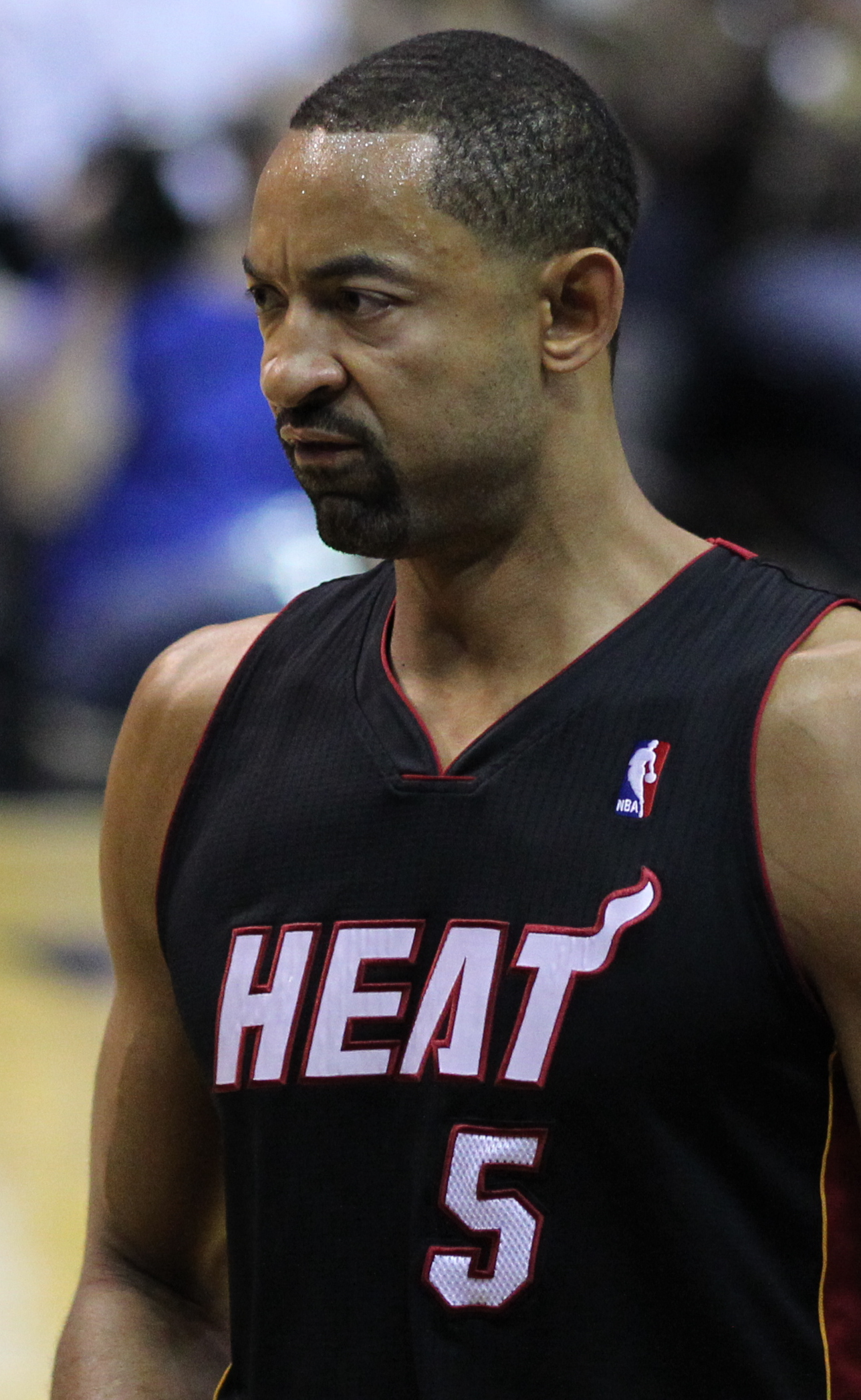 Juwan Howard: Washington Wizards v/s Miami Heat March 30, 2011